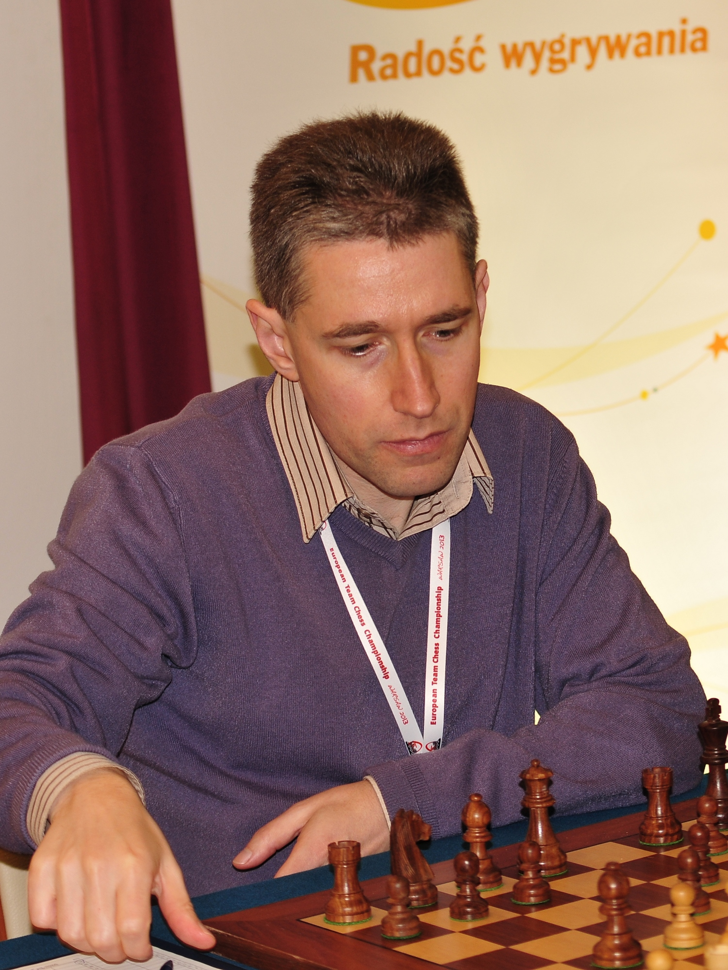 GM Michael Adams, European Chess Team Championship Warsaw 2013